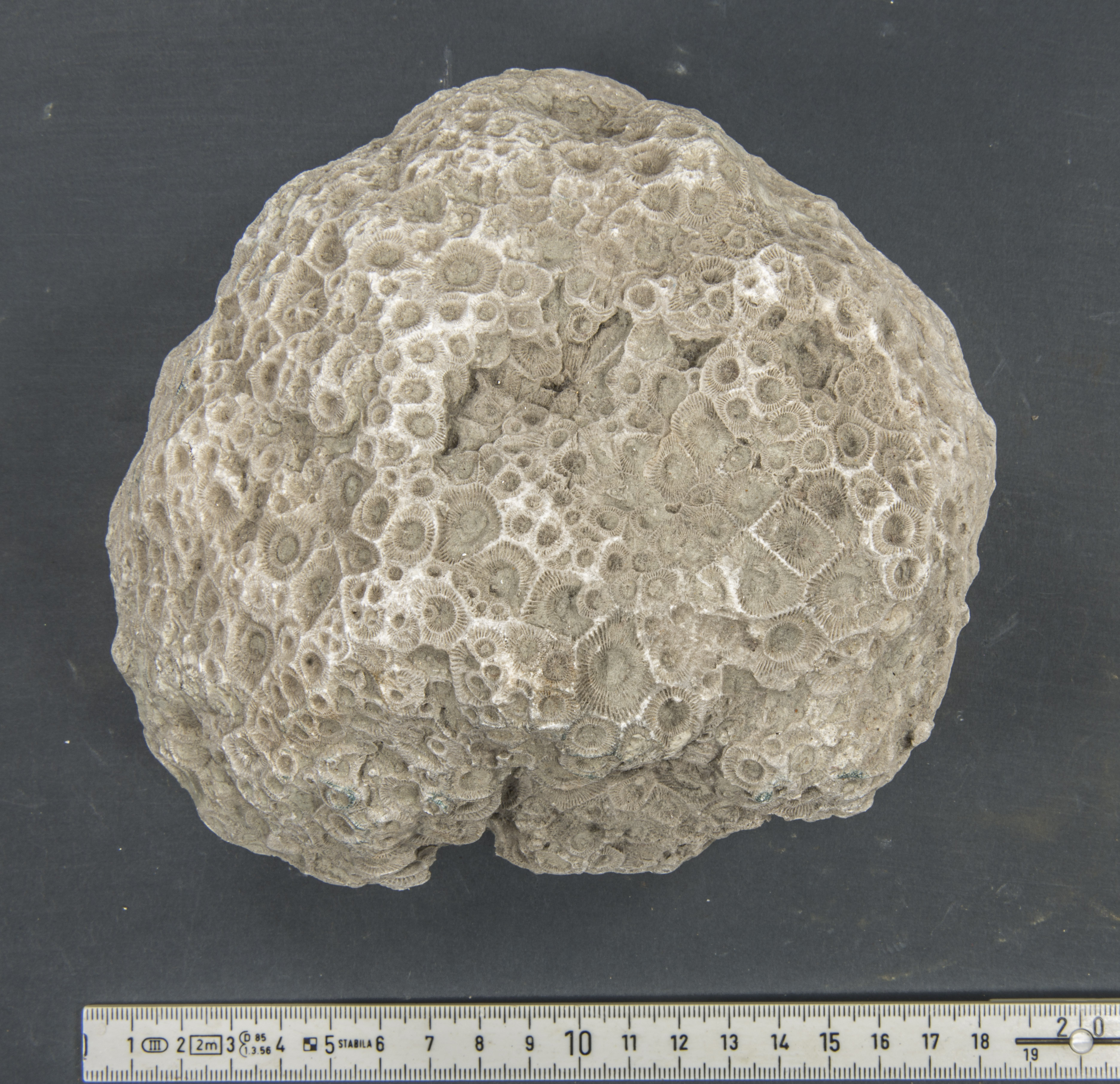 Acervularia ananas (fossil coral from Silur) Gotland, Sweden